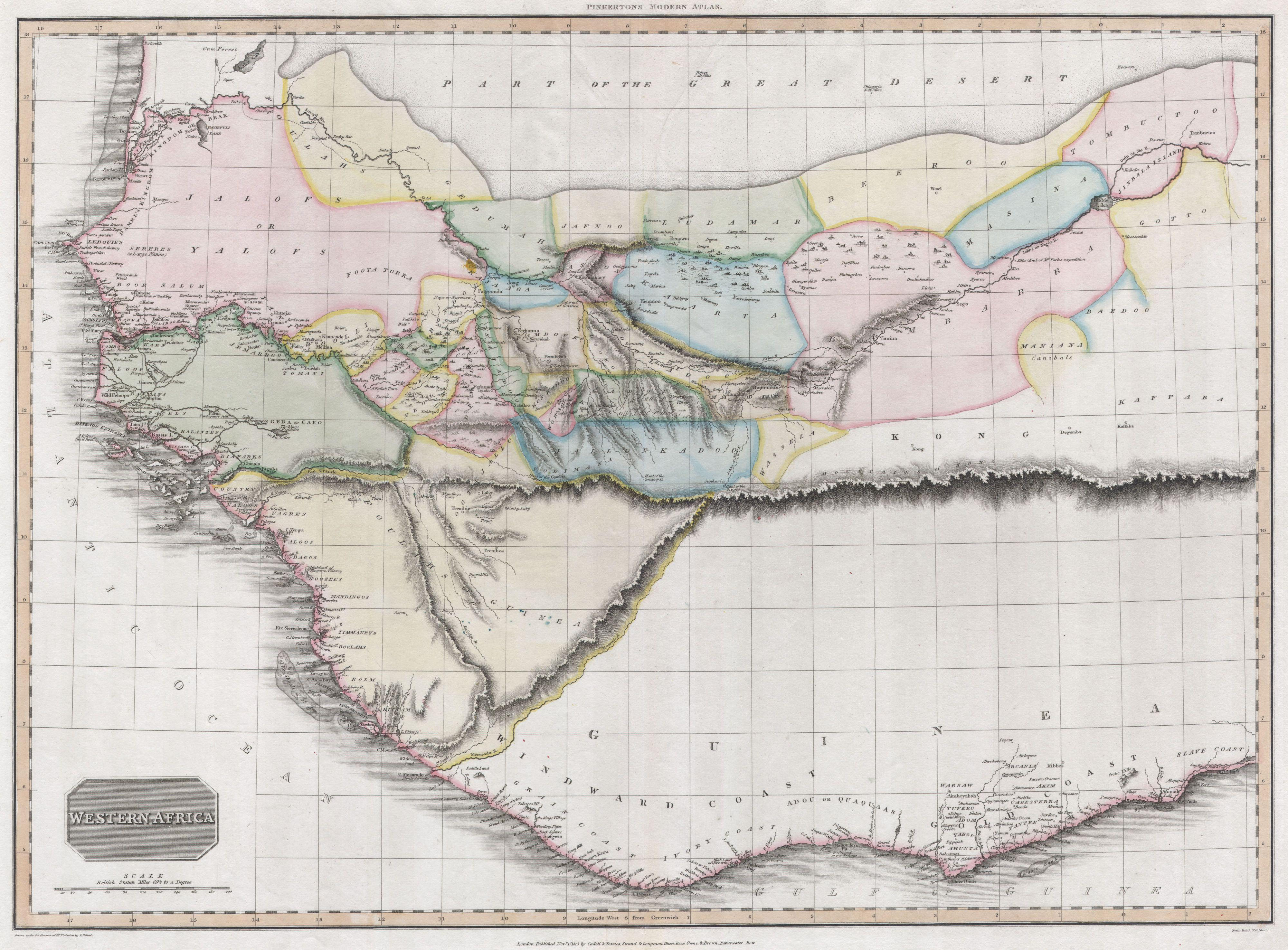 This fascinating hand colored 1813 map by Edinburgh cartographer John Pinkerton depicts Western Africa. Depicts Africa roughly from the Salve Coast and Gold coast west through the Ivory Coast, Guinea, the Gambia and north past Cape Verde as far as Senegal. Including numerous fascinating Tribal references such as the Kingdom of Brak, the residence of the King of Geba or Cabo, the Foulahs of Guinea, and the Maniana Cannibals, among others. Offers interesting inland detail along the Niger River as far east as Timbuktu (Tombuctoo). The continent is bisected by the dramatic and mythical Mountains of Kong, which, based upon the explorations of Mungo Parks, were presumed to be the southern barrier to the Niger River valley. Much of the rest of the continent is blank and as such “unknown”. Published in November 1, 1813 by Cadell and Davies for inclusion in Pinkerton’s Modern Atlas.